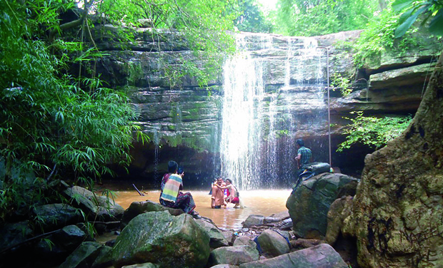 Bheemuni Padam Waterfalls in Telangana